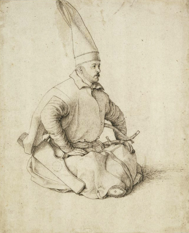 A Turkish Janissary; seated on the ground almost in profile to right, wearing a tall conical hat, the top of which is folded over. 1479-81 Pen and black ink